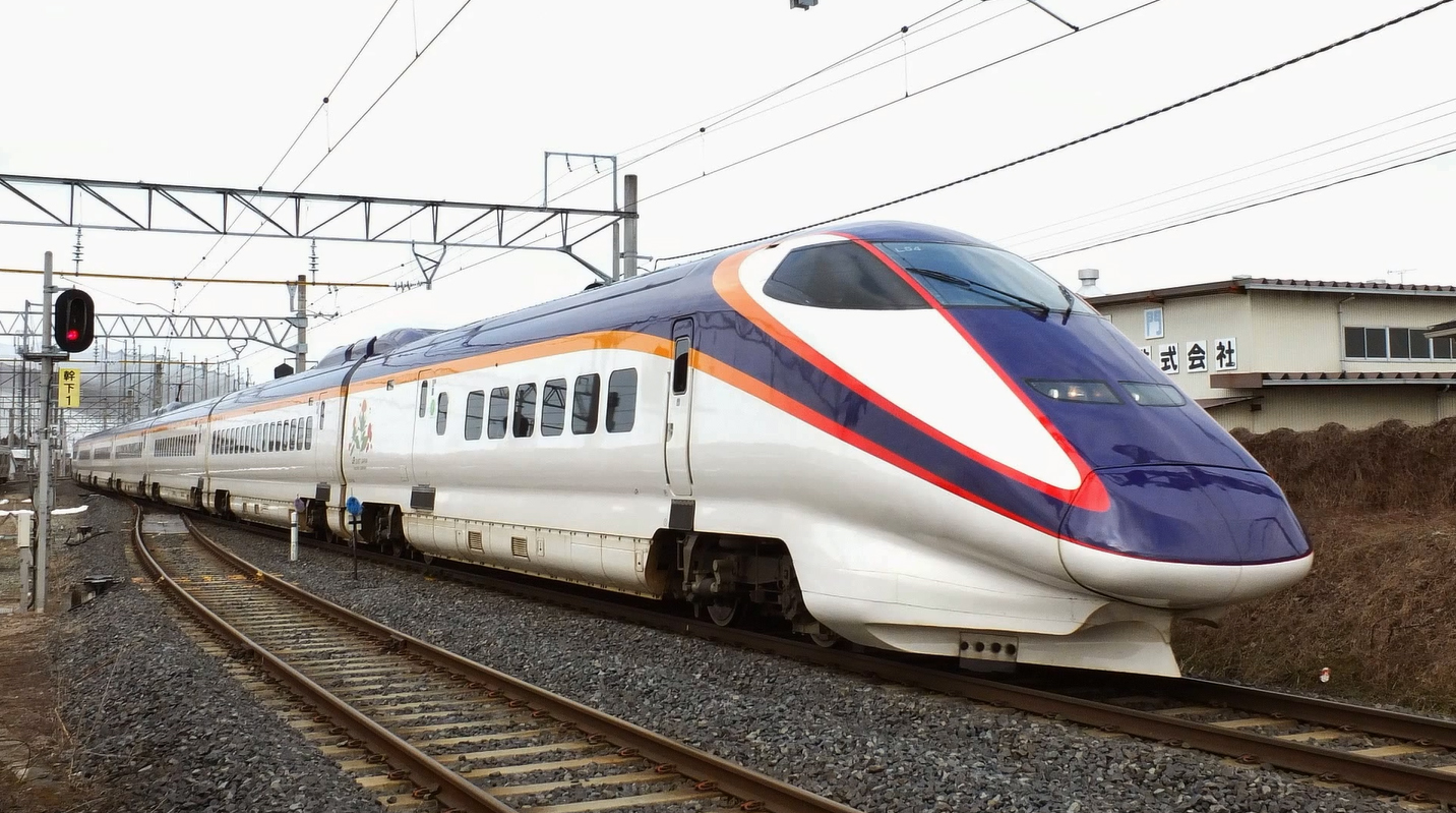 JR East E3-1000 series shinkansen set L54 approaching Kita-Yamagata Station on a Yamagata Shinkansen Tsubasa service